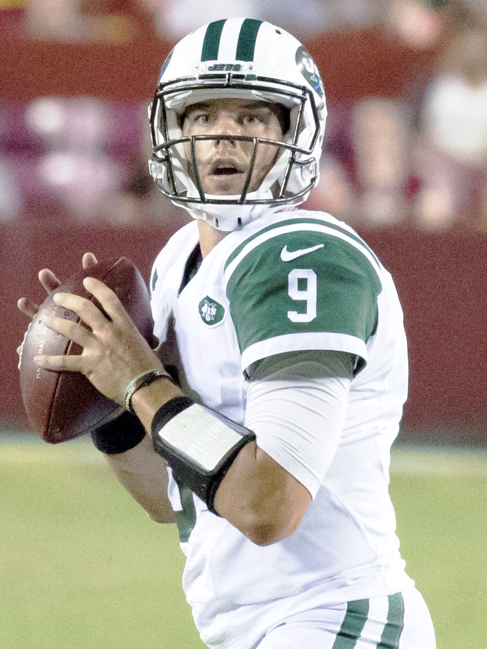 Jets at Redskins 8/19/16